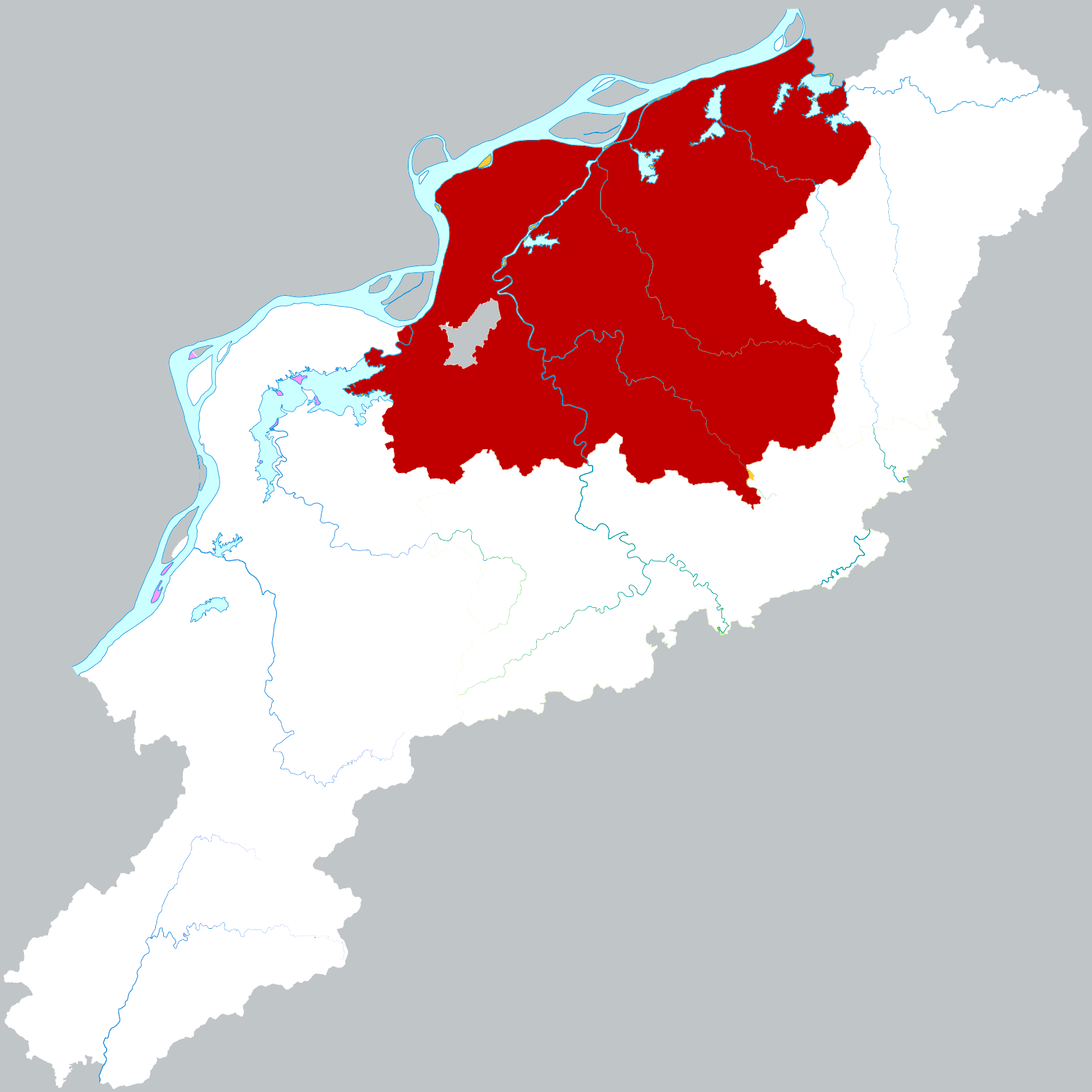 Location of Guichi district in Chizhou city, China